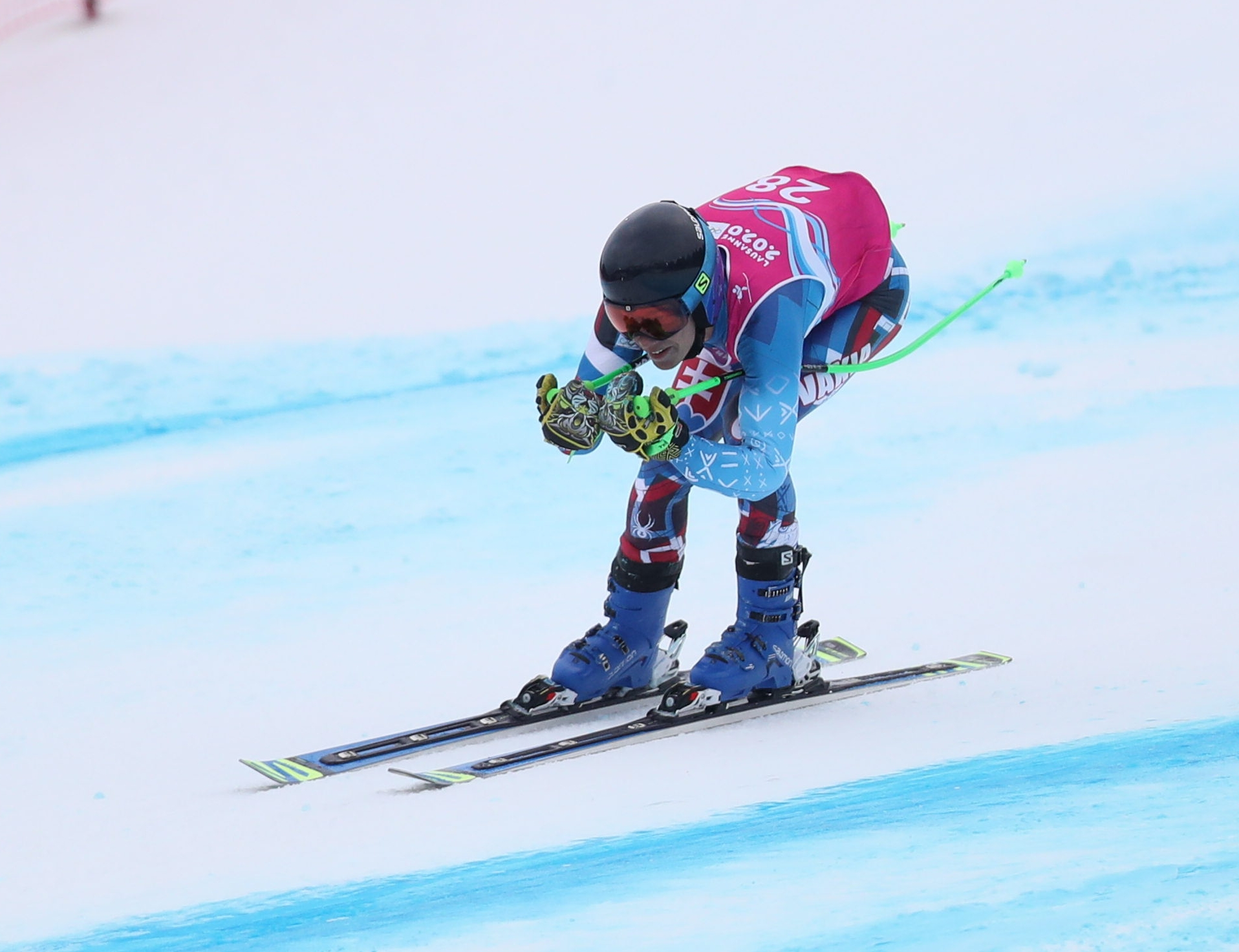 Men's Super G at the 2020 Winter Youth Olympics in Lausanne